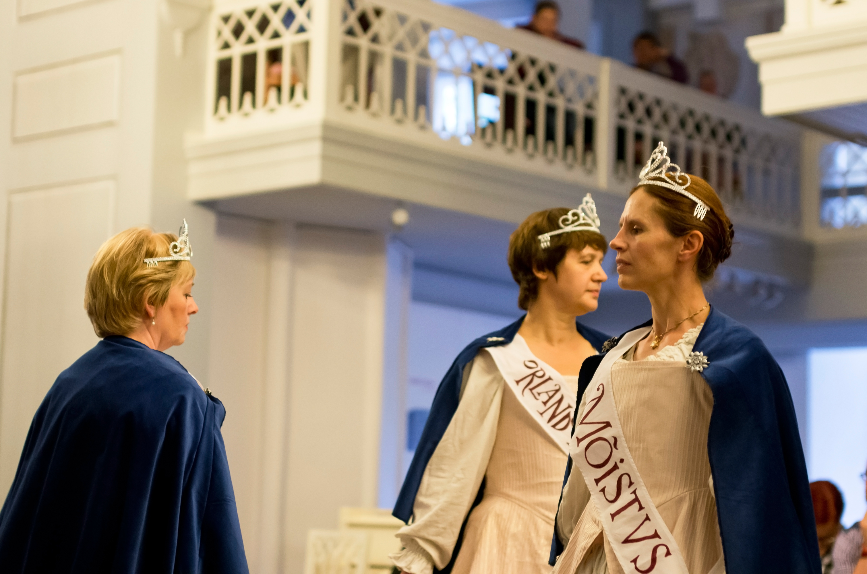 Moments from the performance "Orlando furioso" of the early dance ensemble Saltatriculi, August 16th 2015.